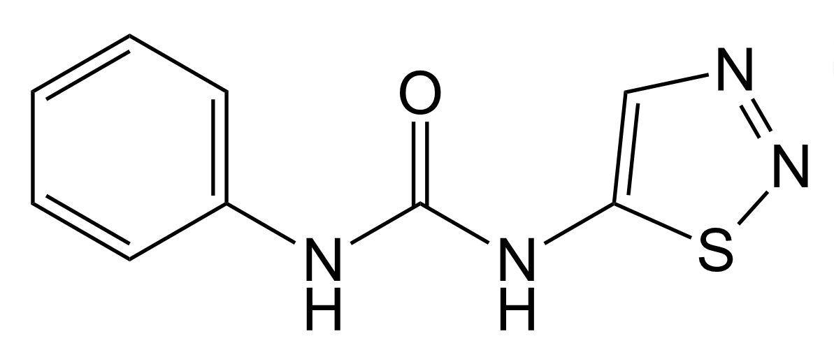 Thidiazuron